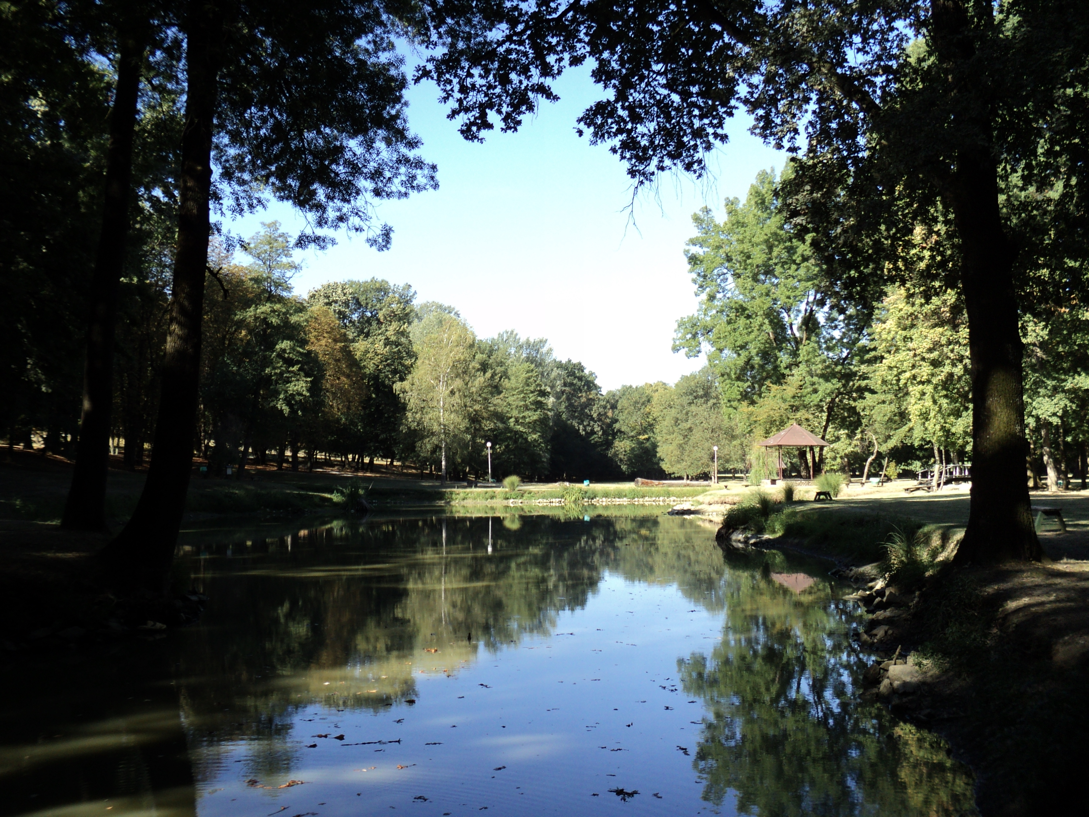 City park in Našice.